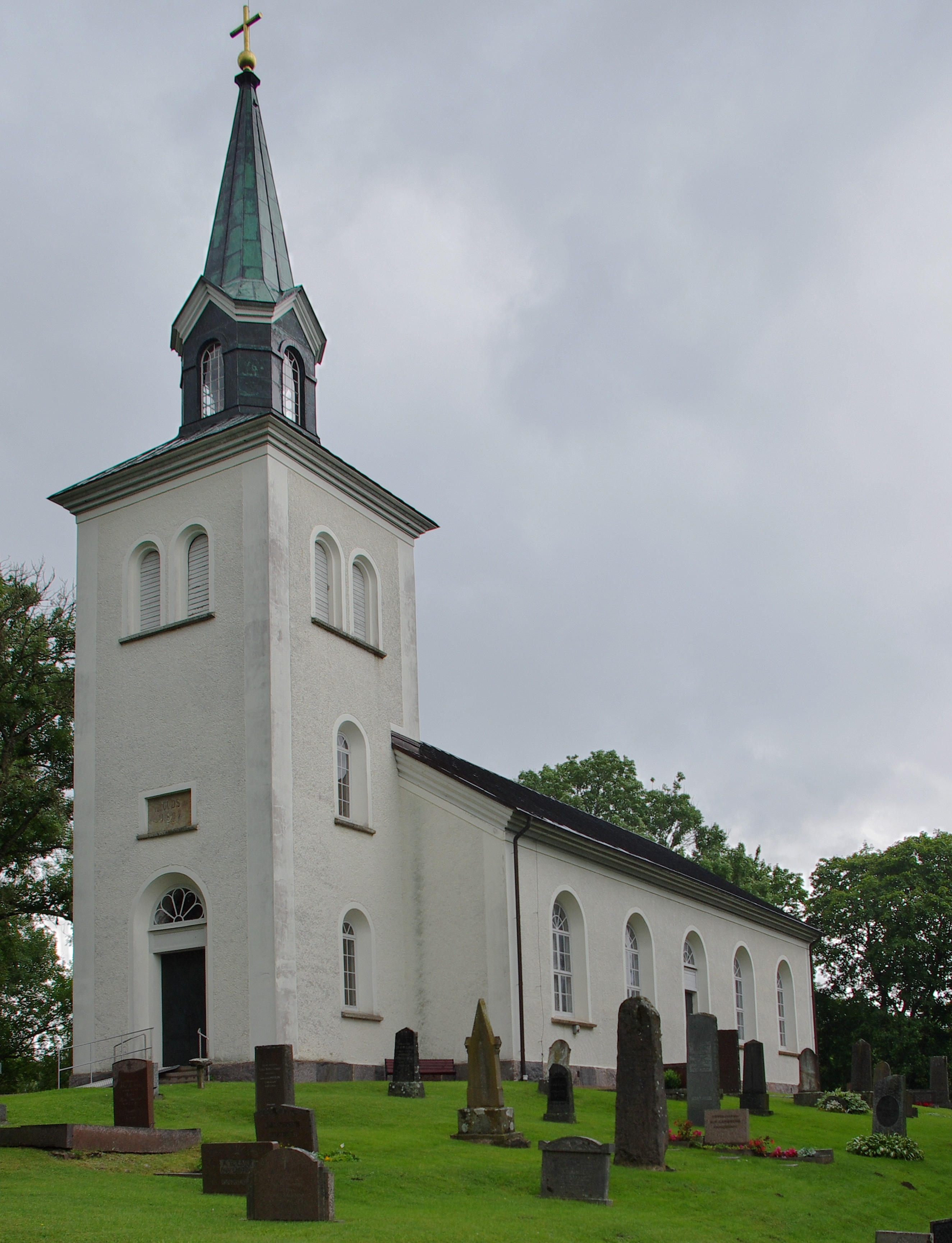 Stenums kyrka (english:Stenum church) in Västergötland and Skara municipality in Västragötaland county, Sweden.